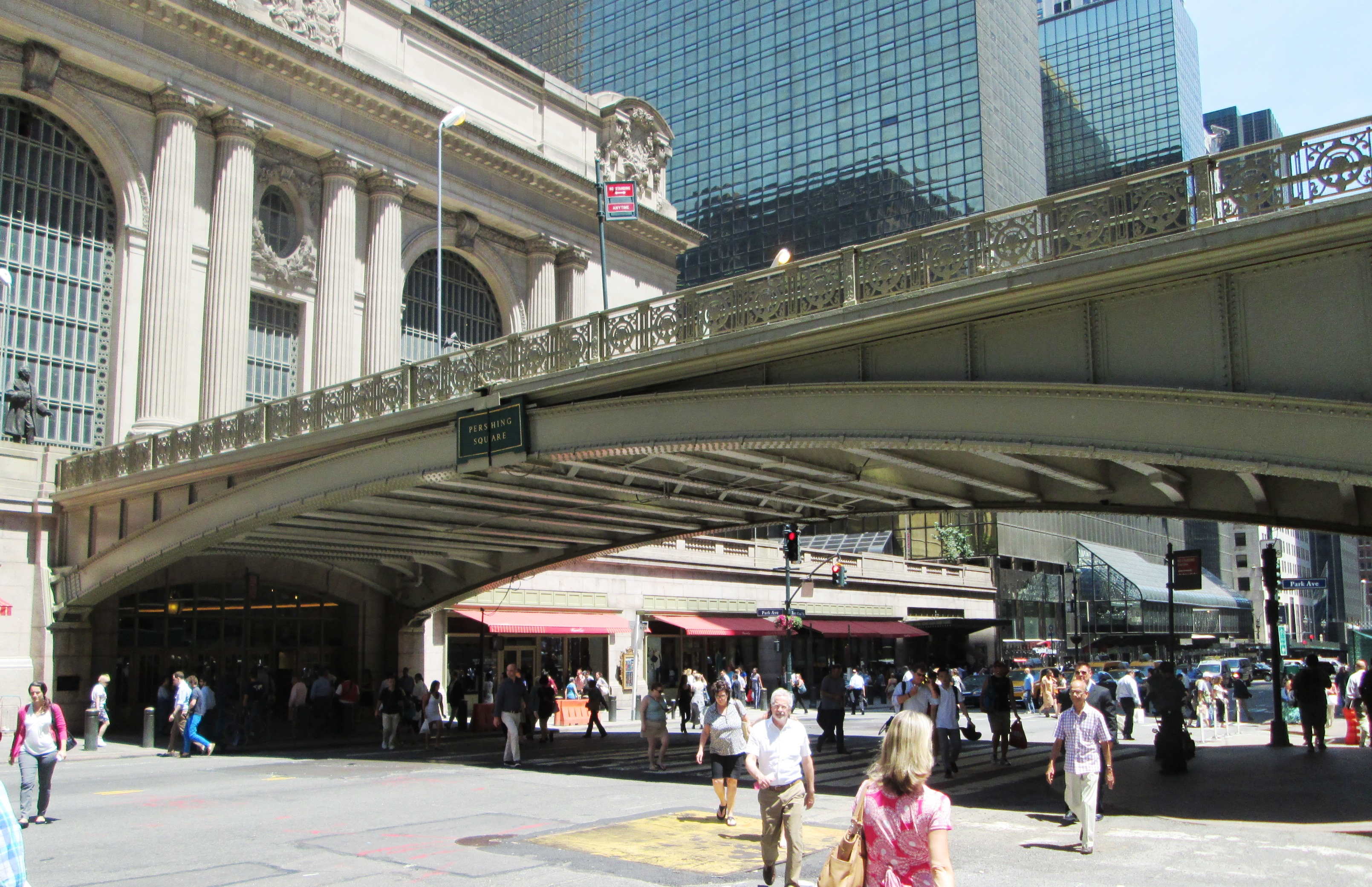 The Park Avenue Viaduct over Pershing Square at East 42nd Street in midtown Manhattan, New York City. Grand Central Terminal is at the center and left, and the Grand Hyatt Hotel is in the background.